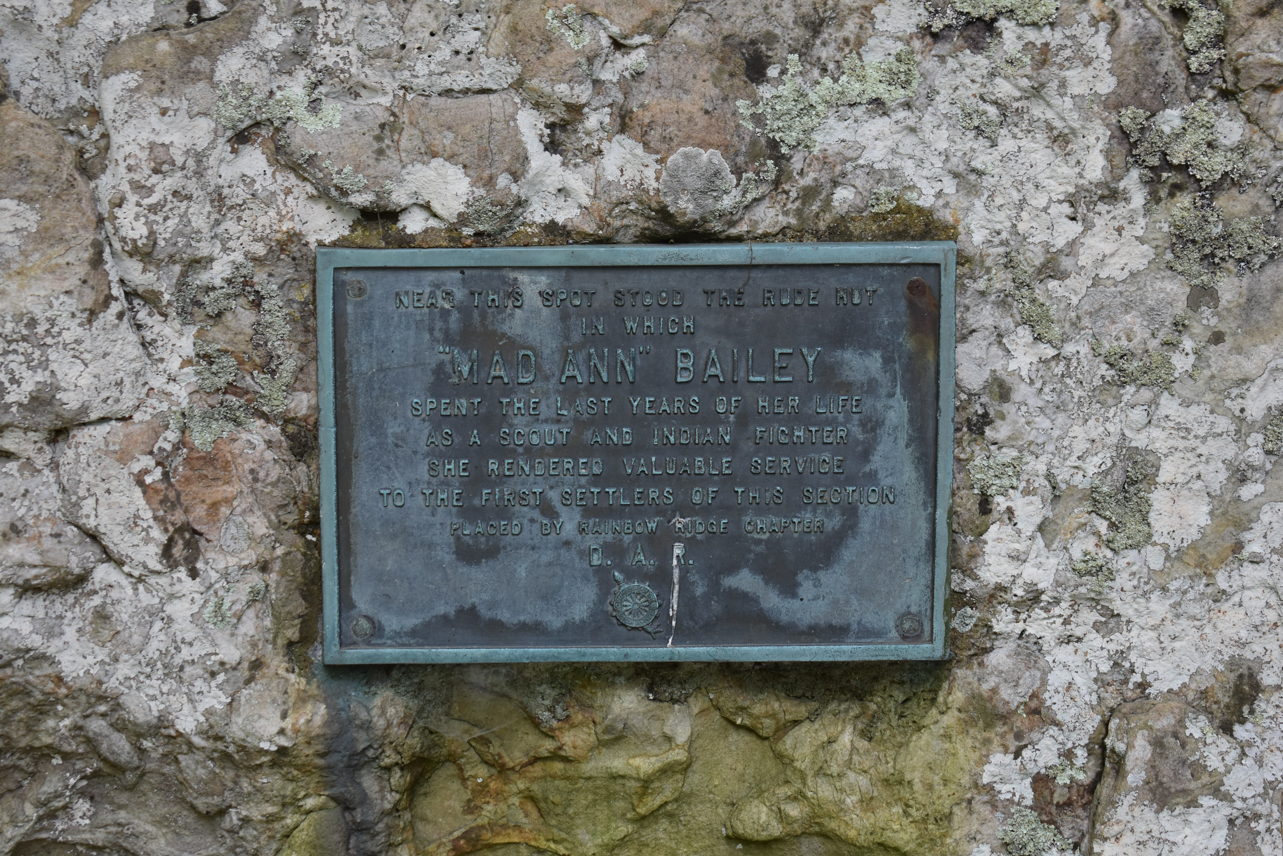 This small plaque affixed to a rock beside of U. S. Route 220 near the Falling Springs Falls commemorates the location where Mad Ann Bailey once lived. Mad Ann was a frontier scout who served during the French and Indian War and the American Revolutionary War. After the Revolutionary War, Bailey continued to act as an express rider despite being over seventy years old. She died in Ohio in 1825 at eighty-three years old. Her remains were reinterred in 1901 in the Point Pleasant State Park in Point Pleasant, West Virginia.